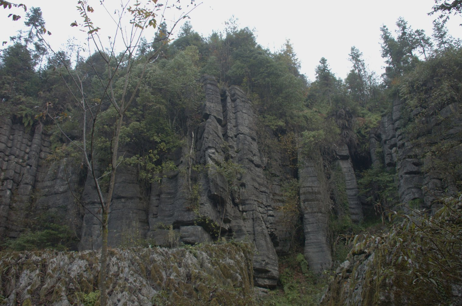 "Stone Forest" in Suobaya (Suoba Pass) Scenic Area, Jianshi County, Enshi Mao Autonomous Prefecture